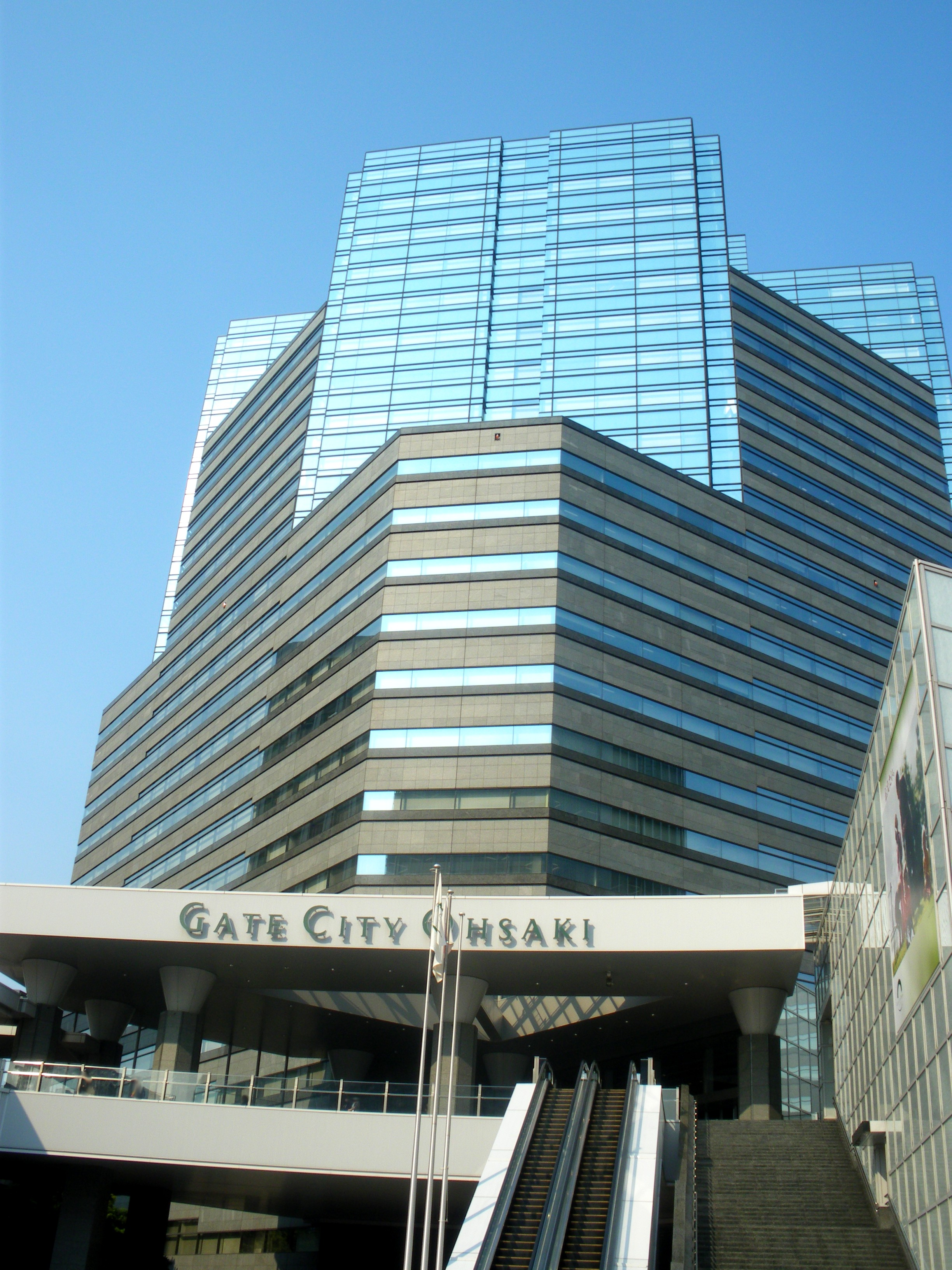 A photo of GATE CITY OHSAKI(west tower),Ohsaki,Shinagawa-ku,Tokyo,Japan.